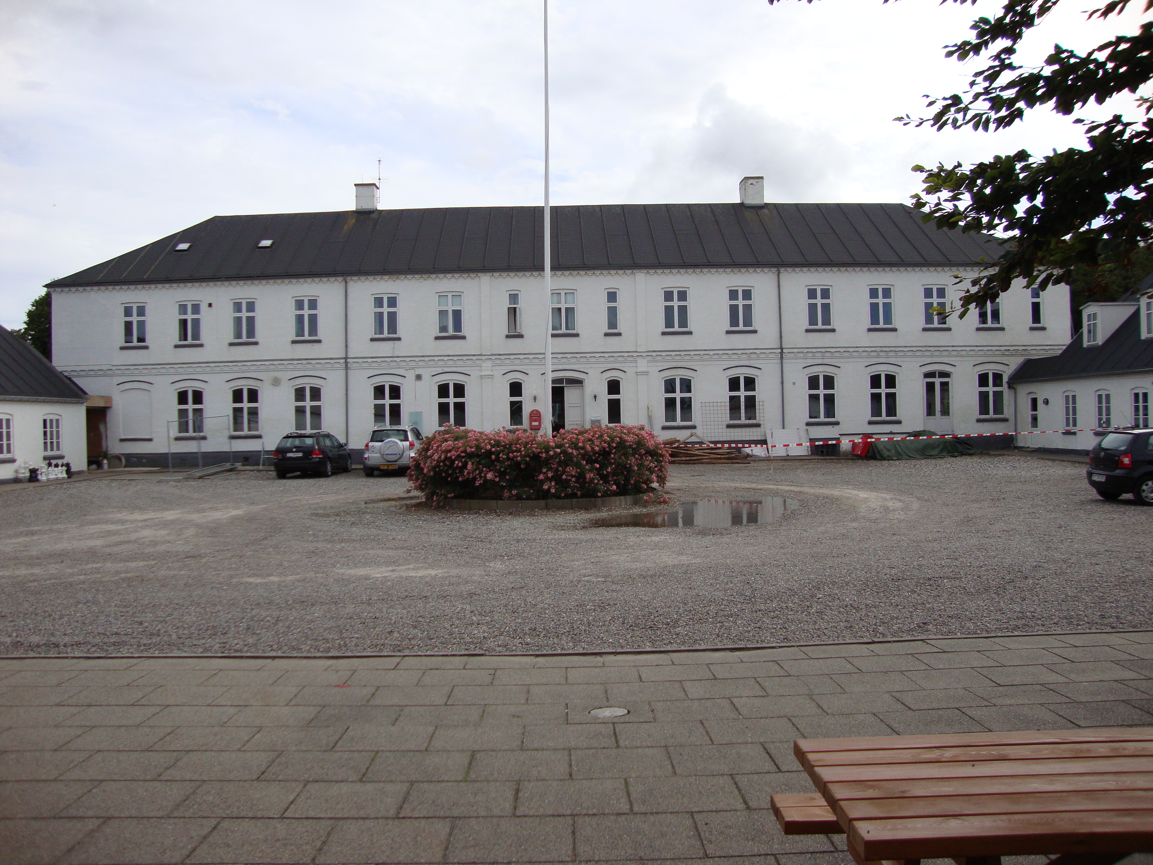 Kettrupgaard in Ingstrup, Vendsyssel, Denmark. Main house.